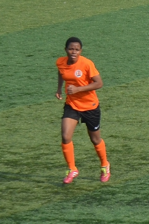 Jacquette Ada playing for 1207 Antalya Muratpaşa Belediyespor in the 2015-16 season's away match against Kireçburnu Spor